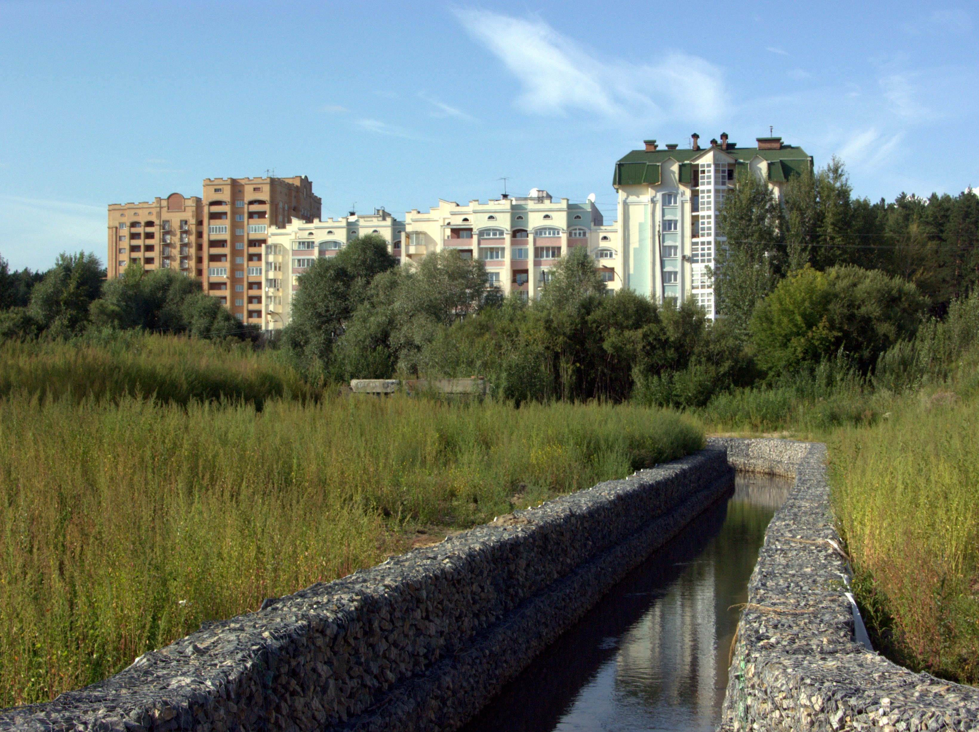 Eltsovka River